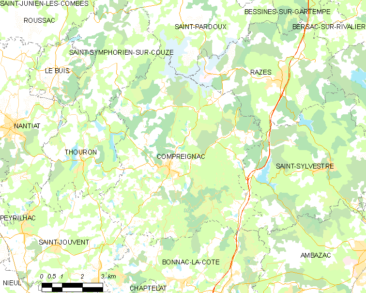 Map of French municipality Compreignac